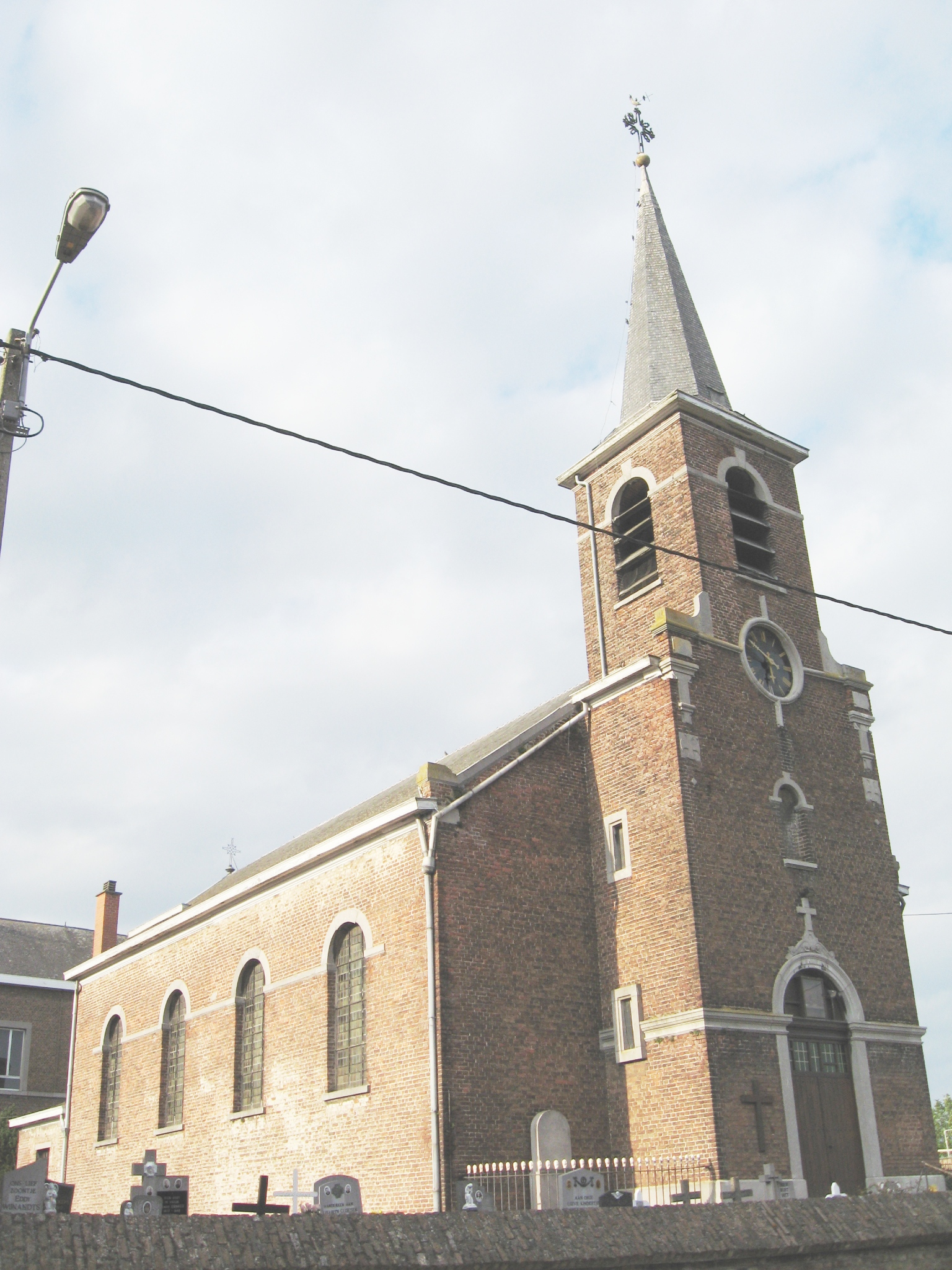 Church of Saint Servatius in Koninksem, Tongeren, Limburg, Belgium